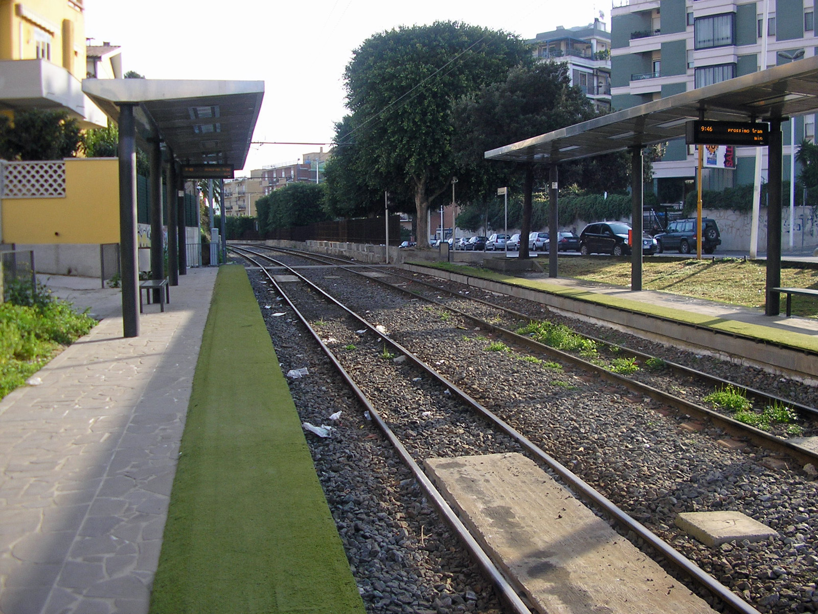 The tram stop of Largo Gennari in Cagliari, Sardinia, Italy, until 2008 used for the railway Cagliari-Isili and now for the tramway of Cagliari, In foreground the platforms and the shelters built for the tram service